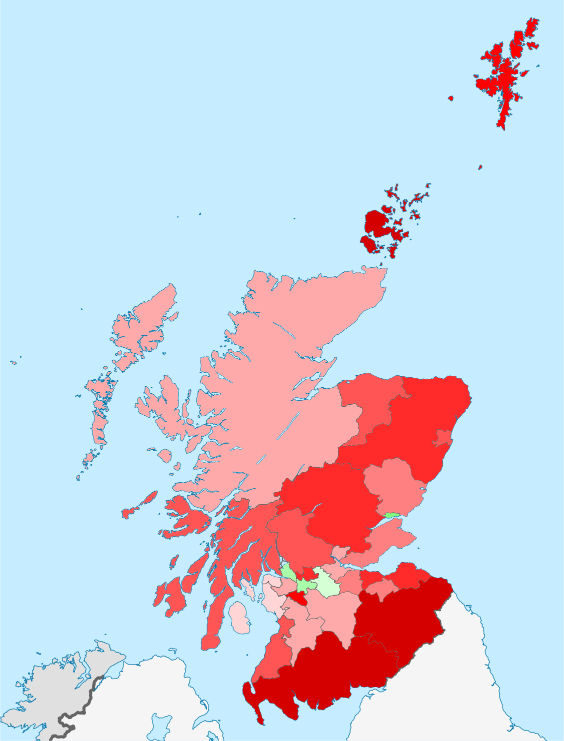 Results of the Scottish independence referendum by council area, with strength of vote based on saturation of colour: Derived from File:Scotland_location_map.svg. Legend: 55.0-57.5% Yes 52.5-55.0% Yes 50.0-52.5% Yes 50.0-52.5% No 52.5-55.0% No 55.0-57.5% No 57.5-60.0% No 60.0-62.5% No 62.5-65.0% No 65.0-67.5% No